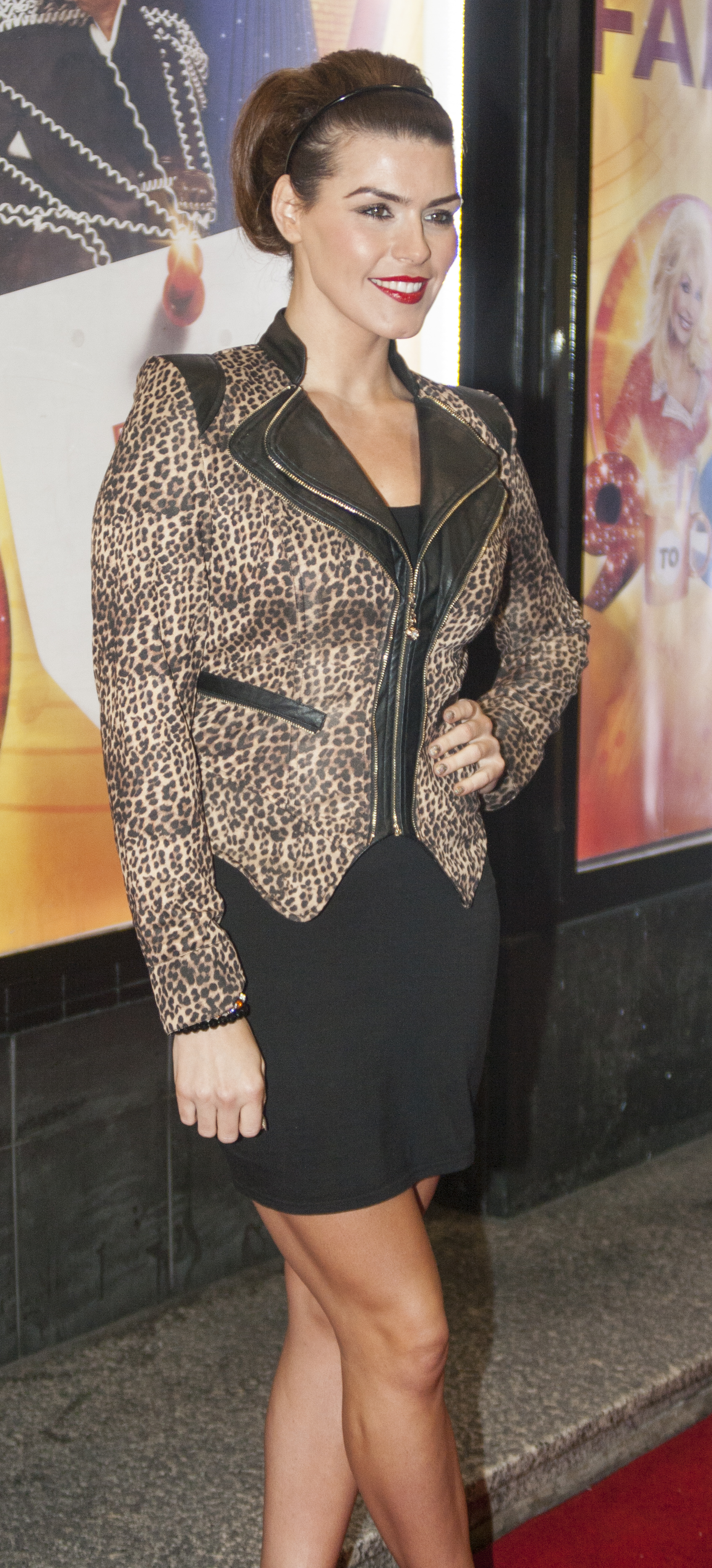 Carolynne Poole outside the Manchester Opera House for a performance of the 9 to 5 musical.